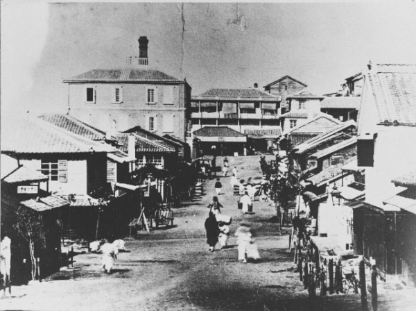 Japanese town at Incheon 1900s